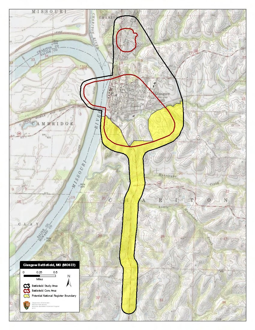 Map of battlefield core and study areas. Although the battlefield was surveyed in 1993, the CWSAC did not delineate a Study Area or a Core Area for Glasgow. The ABPP’s new Study Area includes 1) the location of Shelby’s battery on the west side of the Missouri River, 2) Clark’s approach from the south (starting from the position where the Confederates first heard Shelby's guns shelling the town), 3) the main engagement area south of the town, 4) areas of troop movement east and north of town, and 5) the cavalry engagement north of town. Two Core Areas have been identified. The larger Core Area represents the main area of fighting, which includes the Confederate line of battle and batteries to the south, the fields of fighting to the south and east of the town, and locations where fighting took place within the town itself. This Core Area extends to the west to include the location of Shelby's guns. The second, smaller Core Area represents the location where elements of Hardin’s cavalry defended the northern approach into the town of Glasgow from attacking Confederate horsemen commanded by Colonel Robert Lawther.